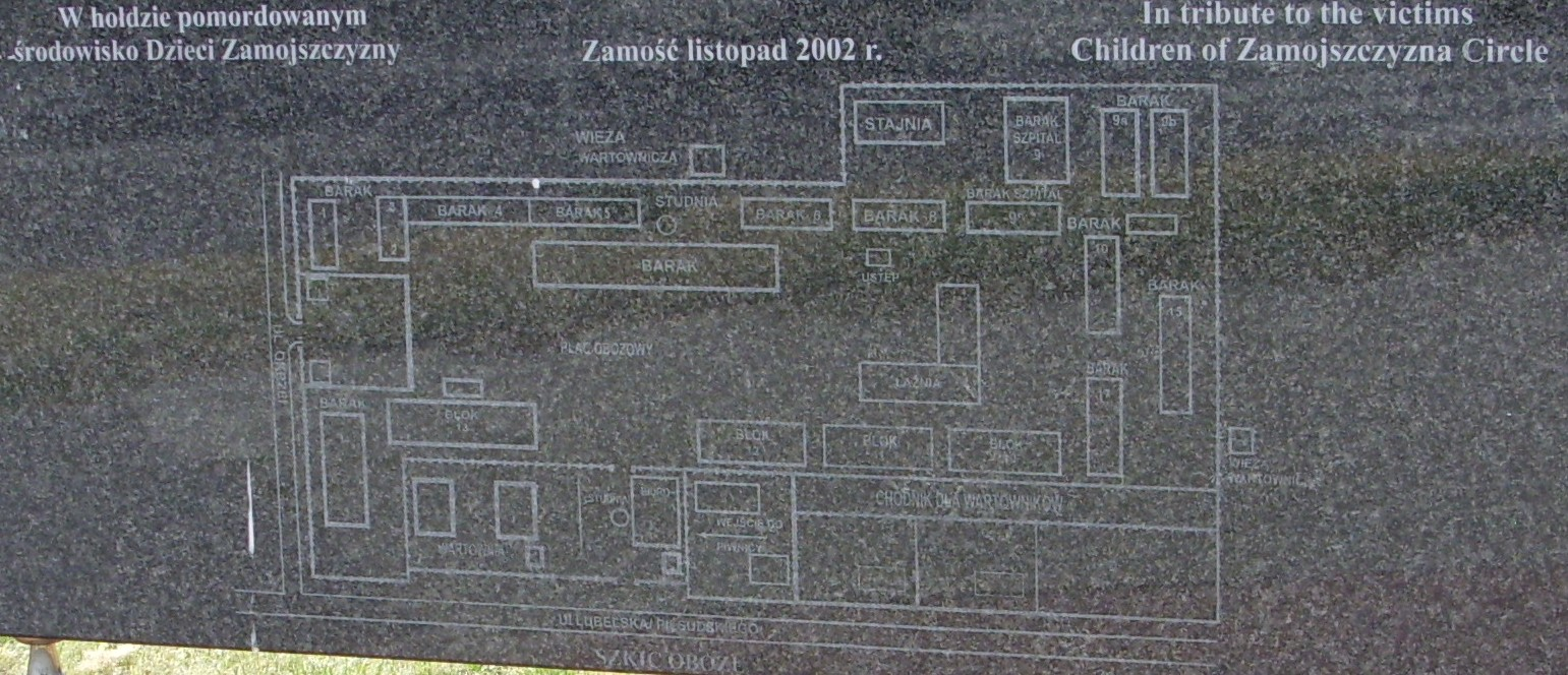 Plan of the German camp in Zamość at Okrzei and Piłsudskiego streets